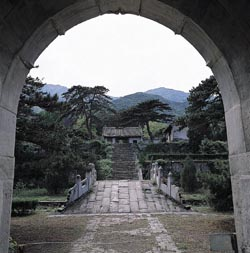 Photo self-taken in 2002